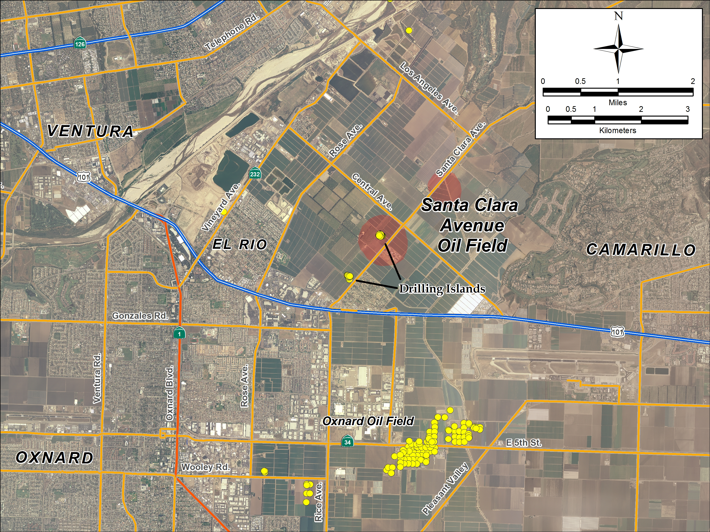 Detail of Santa Clara field, in context, showing adjacent cities, on aerial base; all data shown is in the public domain (USGS, USDA, US Census, etc.); map by self in ArcGIS 10